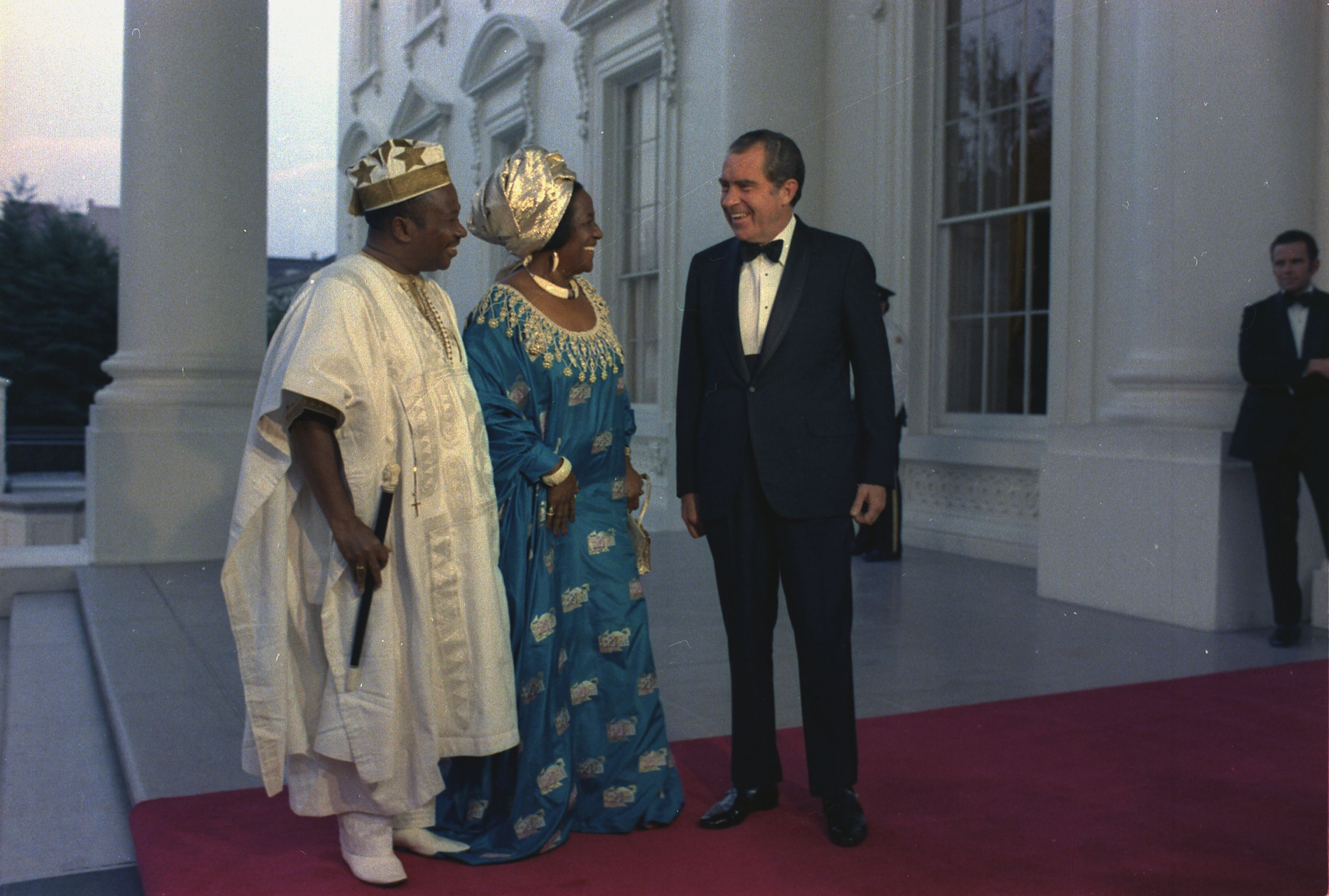 Arrival of William Tolbert, Jr., President of Liberia, 06/05/1973